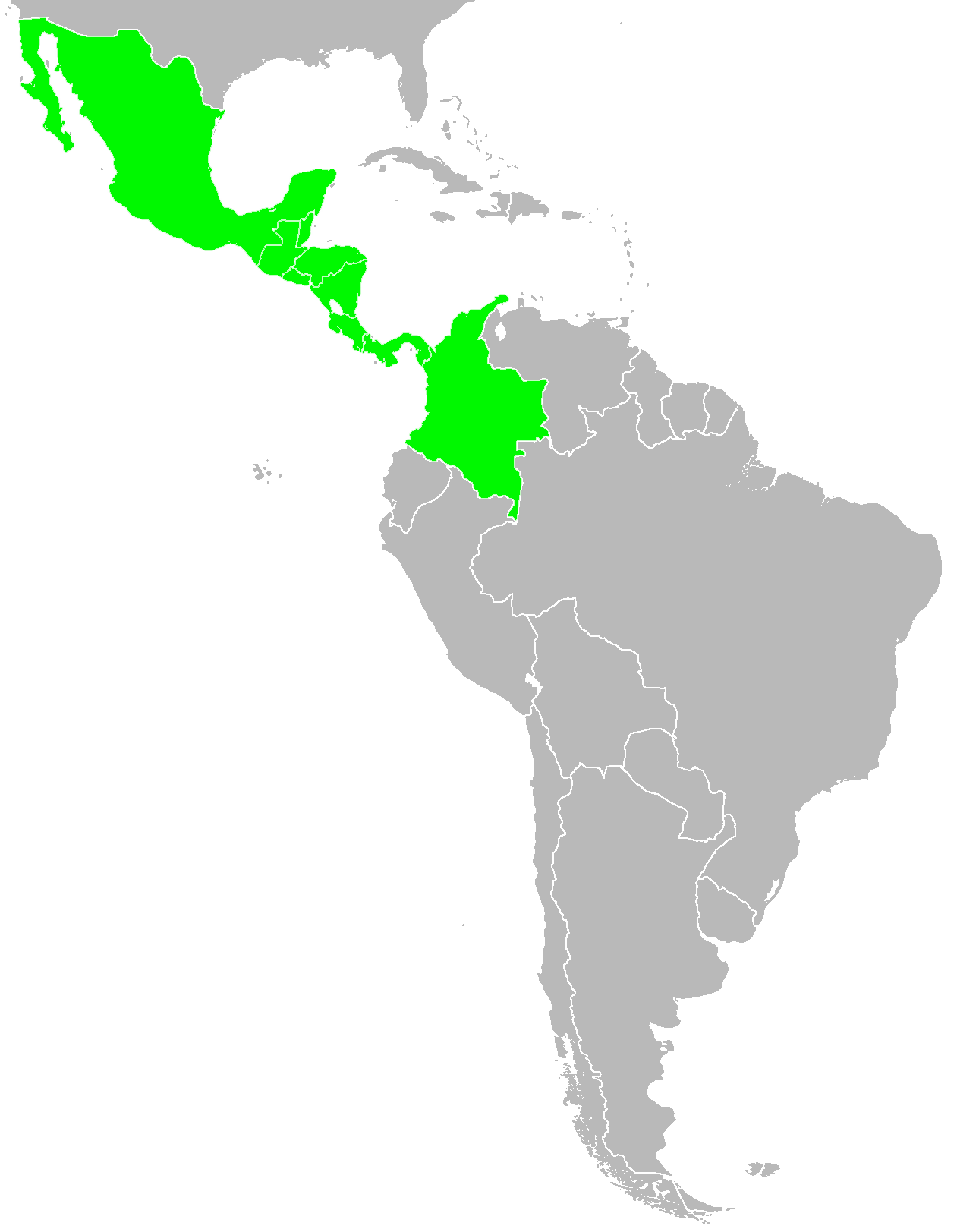 The distribution of the trigona fulviventris bee is indicated in green.